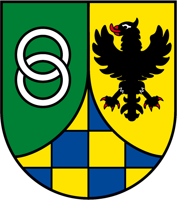 Coat of arms of Wahlenau